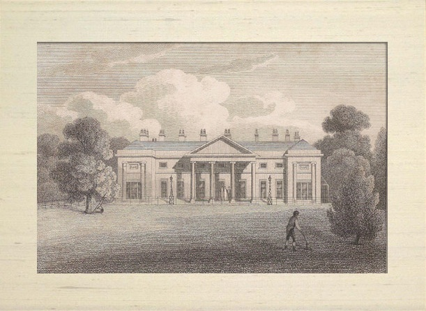 Print of a picture of the residence of the Duke of Kent, Castle Hill Lodge, Castlebar Hill, Ealing, Middlesex. 1814